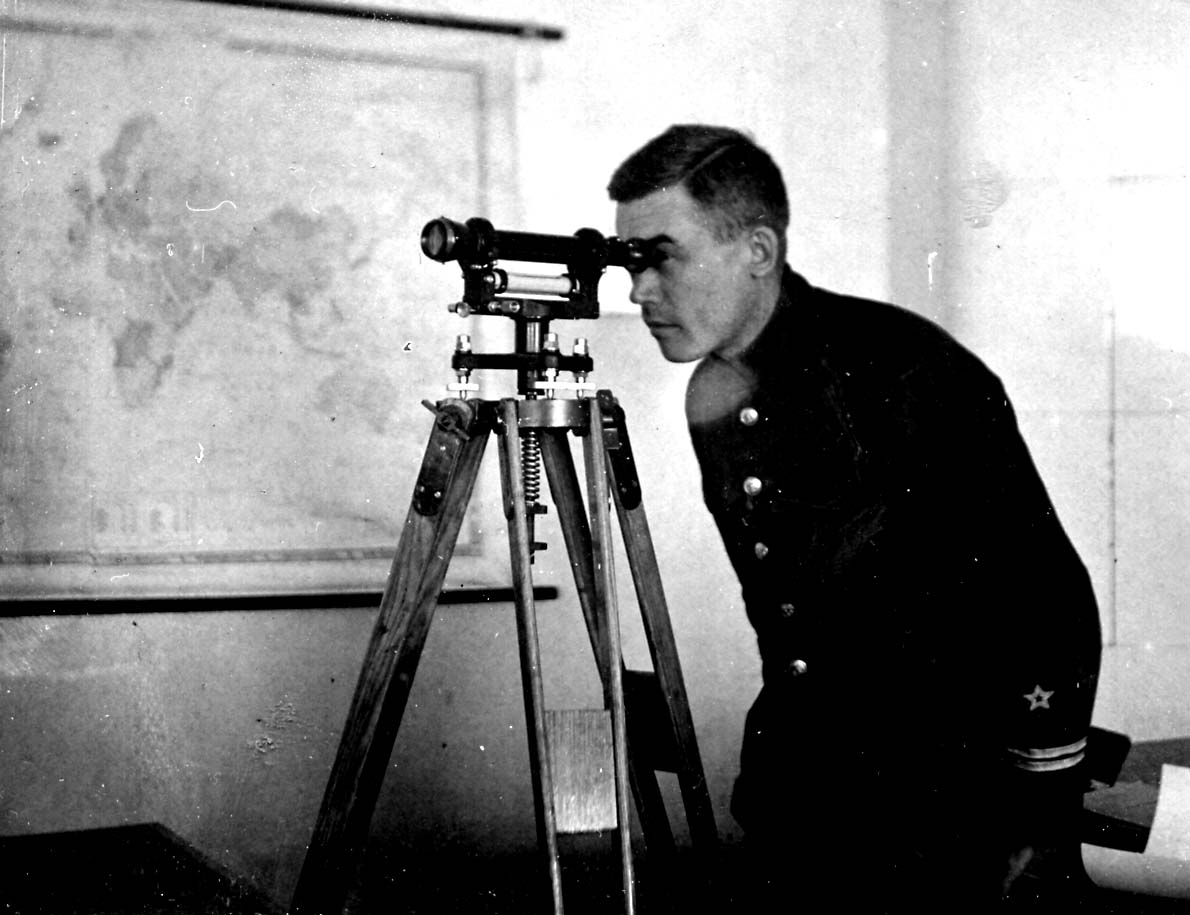 1930 за нивелиром